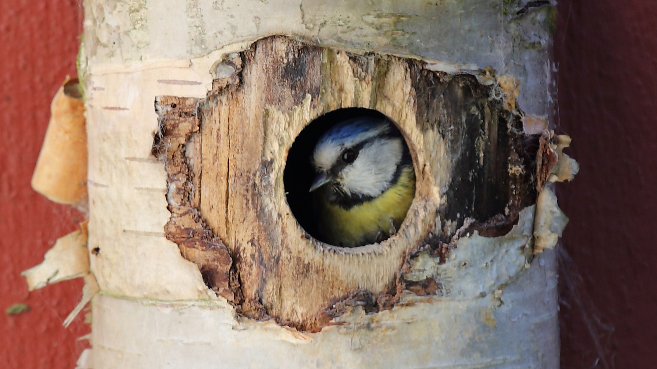 Cyanistes caeruleus taking a peek through nest entrance hole.